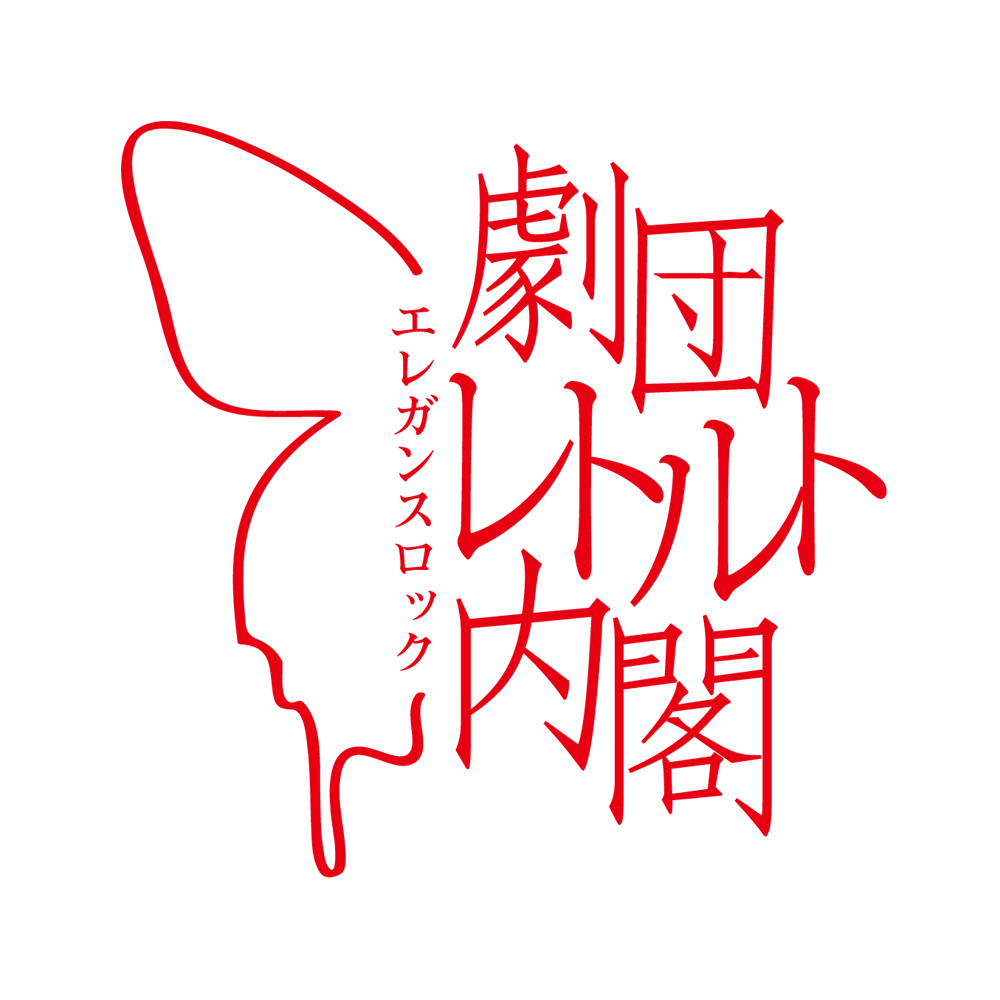 Theatrical company RETORUTO-NAIKAKU official logo mark